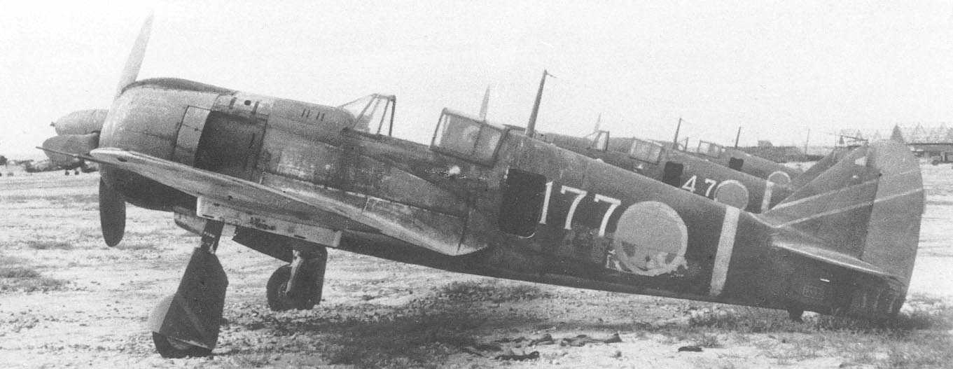 Kawasaki Ki-100-I-Ko Army Fighter Type 5 Mark 1a of 59th Sentai 2nd Chutai in August 1945 in Japan